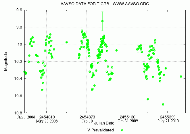 AAVSO light curve of recurrent nova T CrB from 1 Jan 2008 to 17 Nov 2010. Up is brighter and down is fainter. Day numbers are Julian day. Different colors reflect different bandpasses. The last recorded eruption was in 1946.